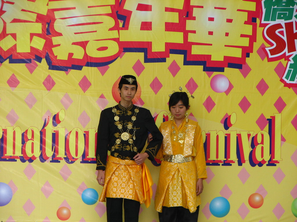 International carnival at NCKU